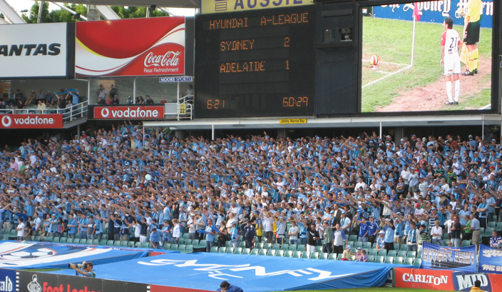 Original photo by Joel Joslin, taken in November, 2006 at Sydney Football Stadium.